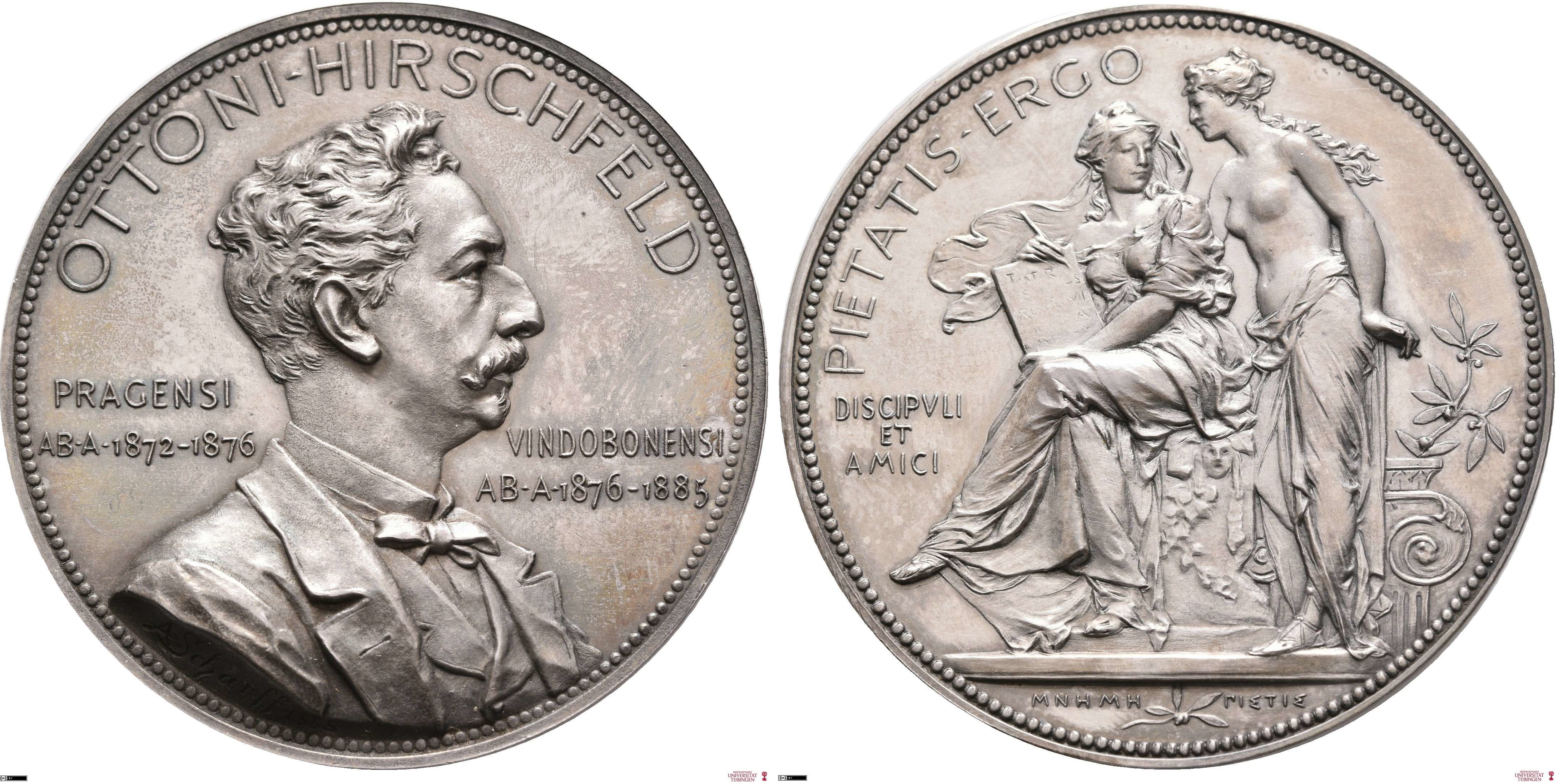 The front side depicts a bust of Otto Hirschfeld surrounded by his name and references to his employments at the University of Prague and Vienna in Latin. The engraver signed below the shoulder. The back side pictures two females in neoclassical stile identified by the Greek names given below as MNHMH (memory) and ΠIΣTIΣ (faithfulness). The allegory of memory sits upon a stone which is decorated by a mask and garland. She holds a board and stilus and is looking at the allegory of faithfulness. On the right side one can find an ionian capital and an olive branch. The dedication in Latin hints at the reason for strucking the medal and names the commissioners as friends and students.